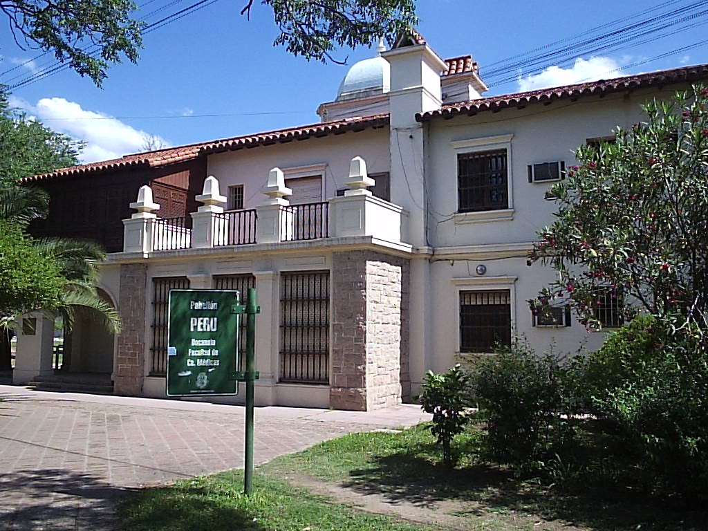 Peru pavilion, located at the campus of the National University of Cordoba, in Cordoba, Argentina.